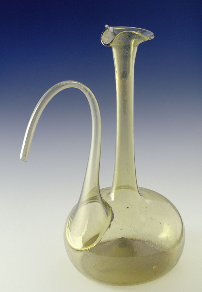 Author Unknown authorDescription